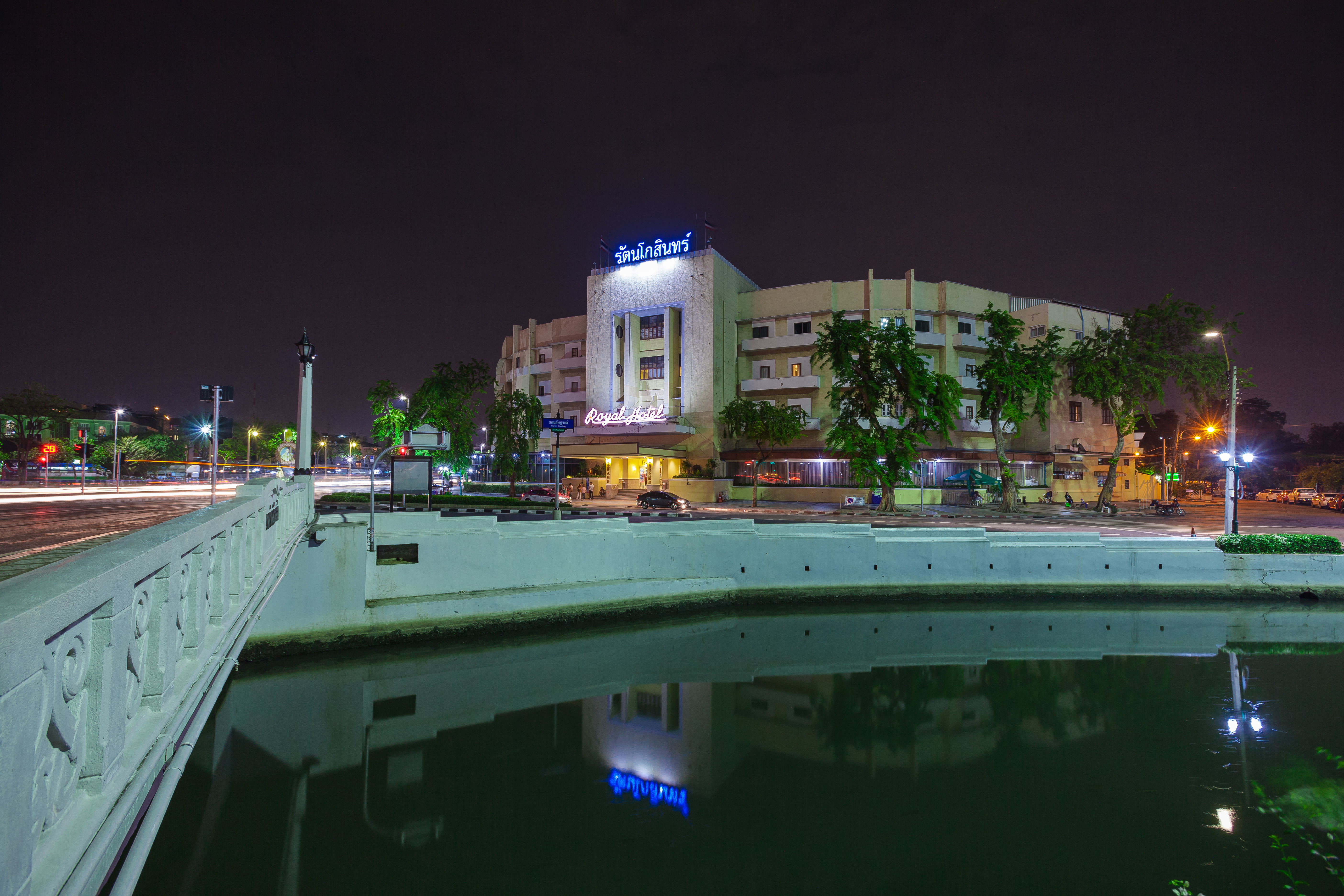 Royal Rattanakosin Hotel, BKK at night.